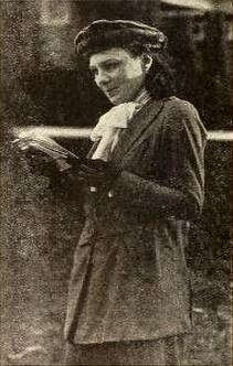 Still with Leatrice Joy in the American film Minnie (1922), on page 124 of the December 16, 1922 Exhibitor's Trade Review.